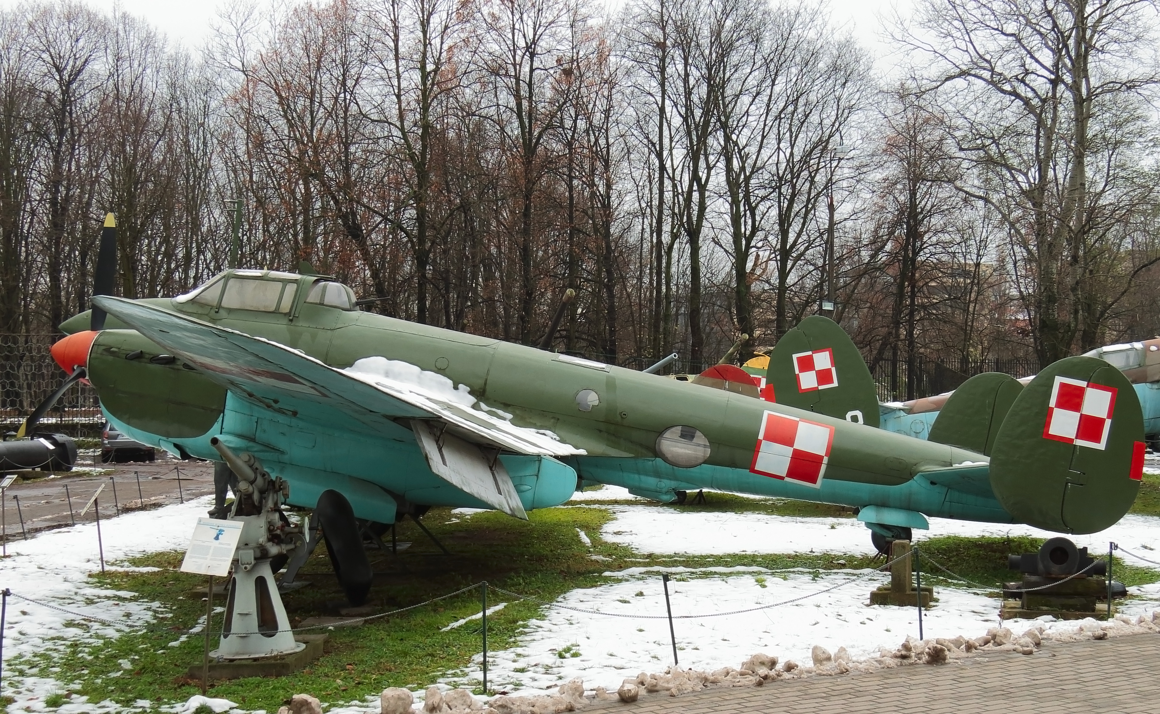 Polish Army Museum in Warsaw. Petlyakov Pe-2FT light bomber